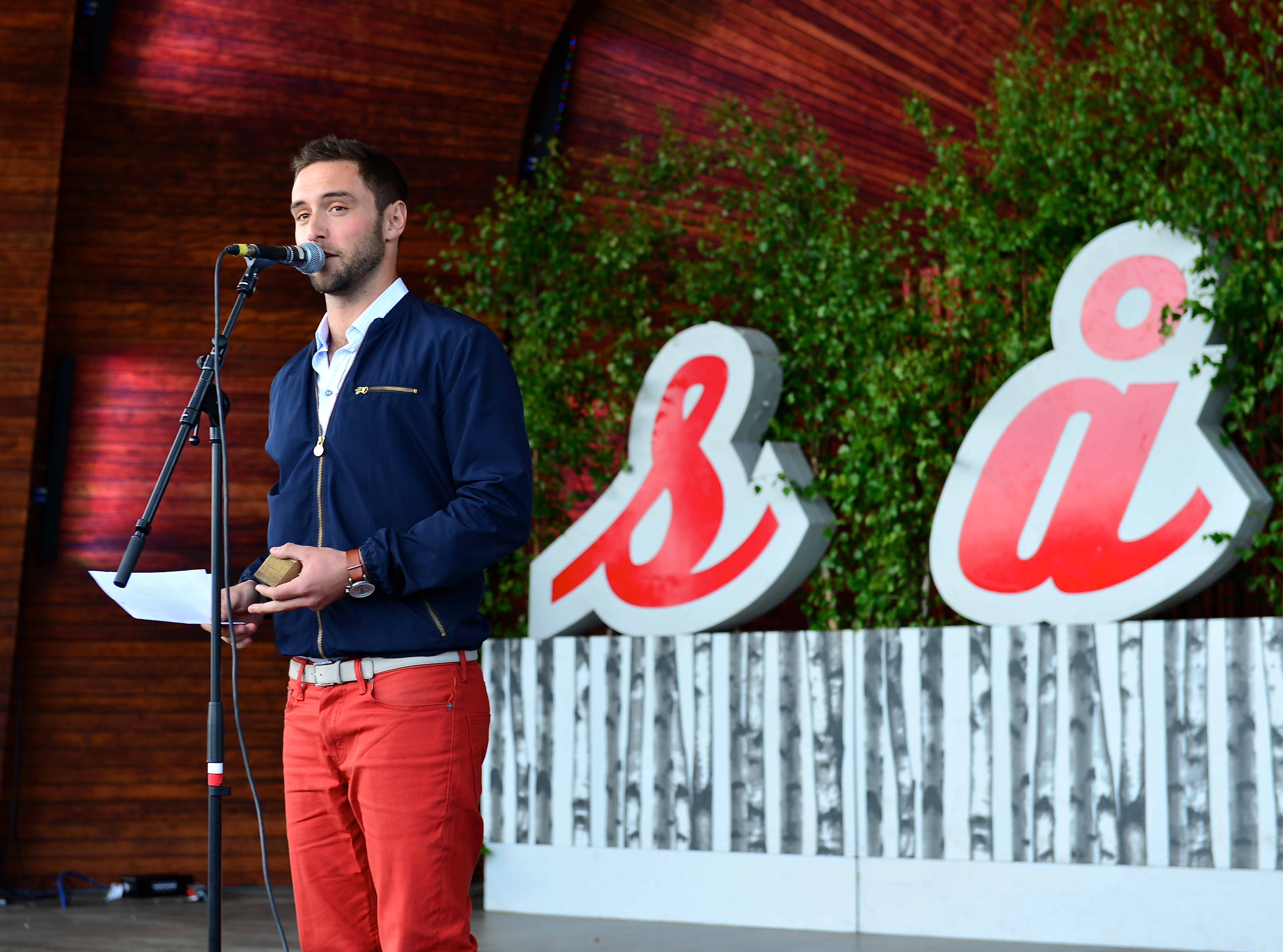 Måns Zelmerlöw during the presentation of this year's artists in "Allsång på Skansen" on June 11, 2013.